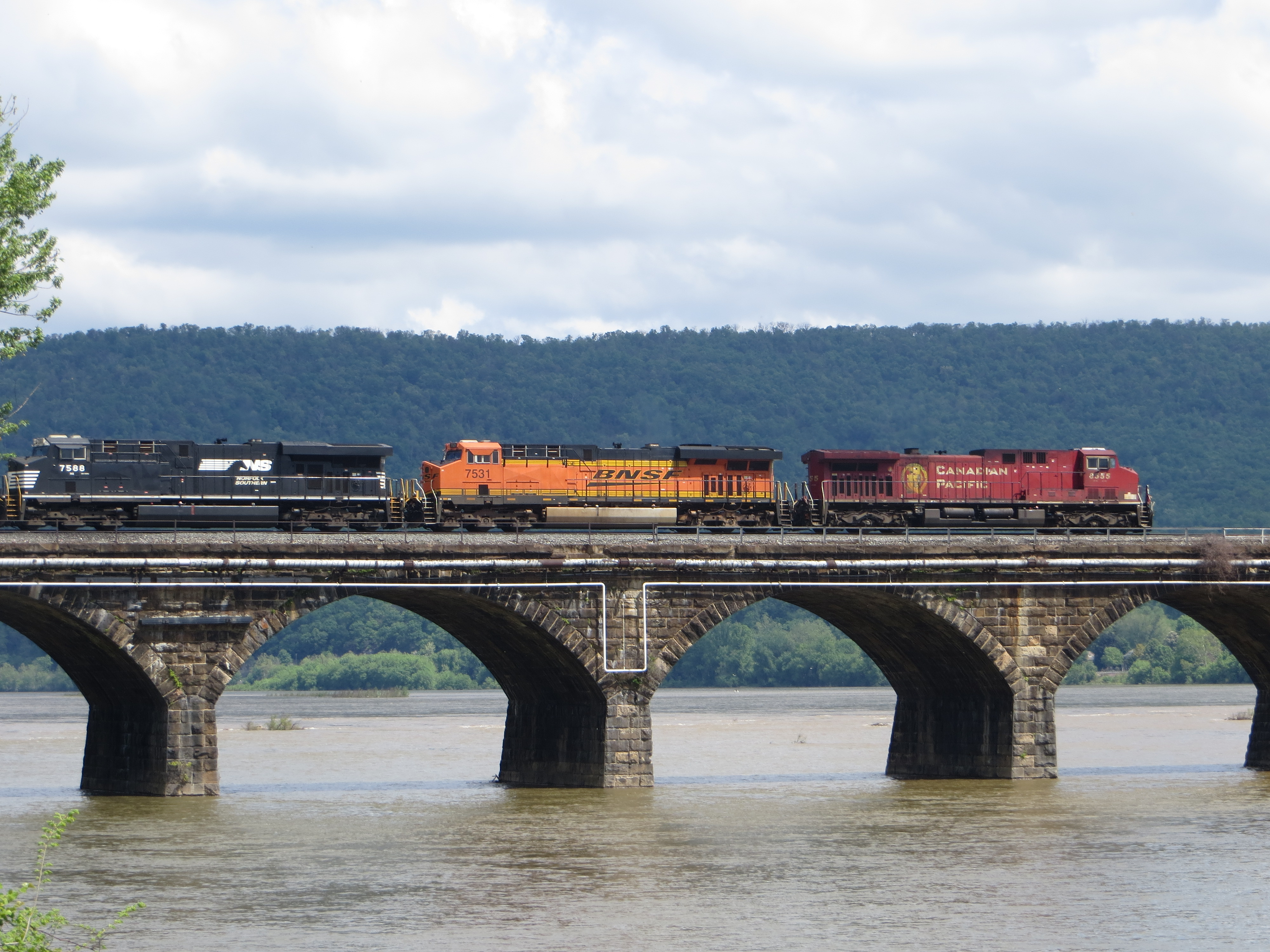 20140524 07 Norfolk Southern RR crossing Rockville Bridge